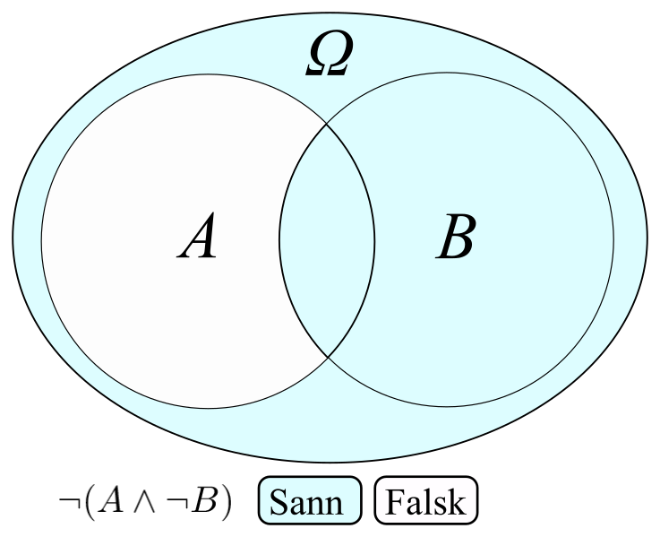 Materiell implication